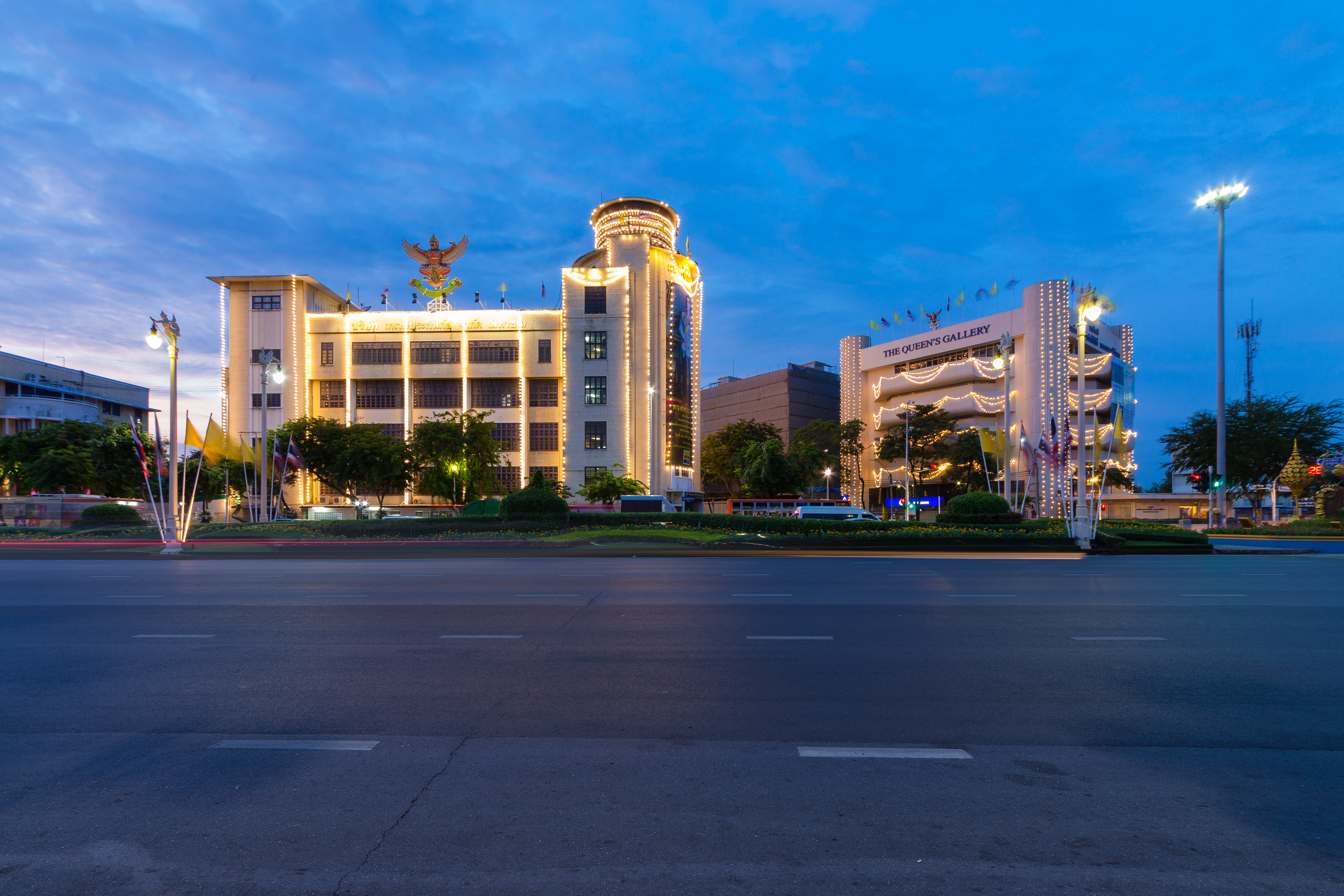 The Queen's Gallery, Bangkok.